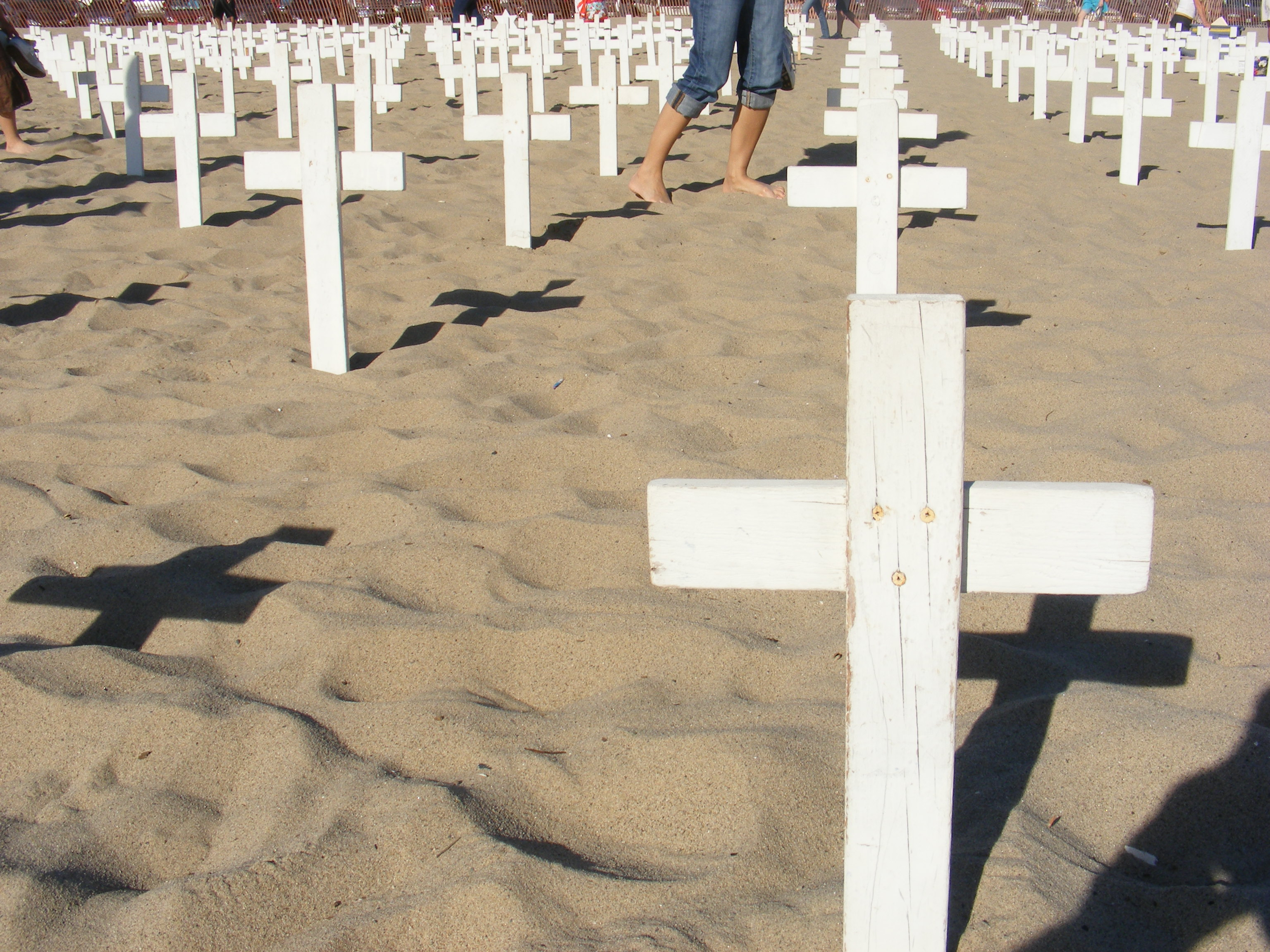 I try to drop by and see the weekly Arlington West memorial every time I'm in town. It just keeps getting bigger as more crosses are added all the time. And sadder too...